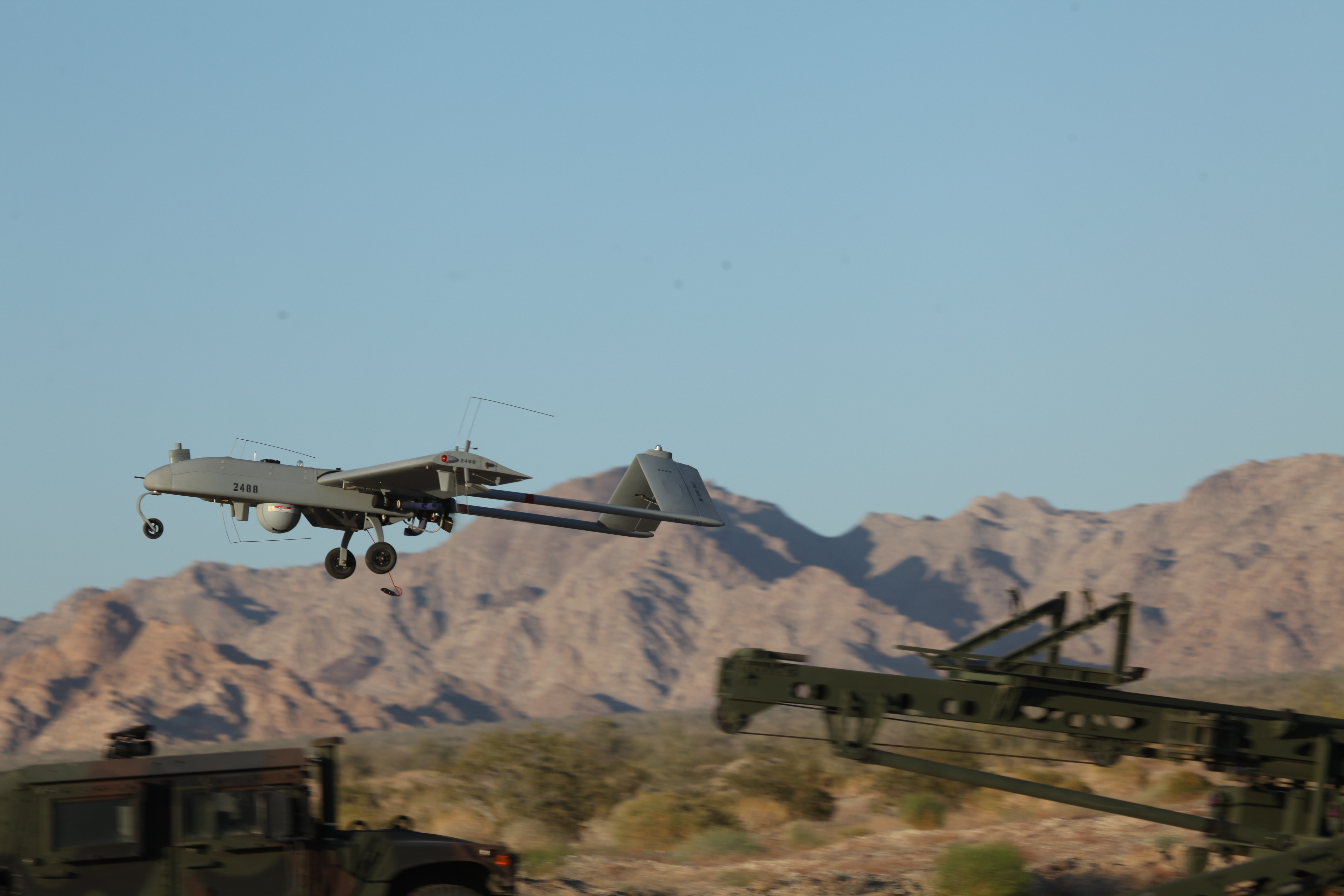 NILAND, Calif. (April 26, 2011) A U.S. Marine Corps RQ-7B Shadow unmanned aerial vehicle launches from Speedbag Airfield during Weapons and Tactics Instructor's Course 2-11, hosted by Marine Aviation Weapons and Tactics Squadron (MAWTS) One. (U.S. Marine Corps photo by Cpl. Richard A. Tetreau/Released)